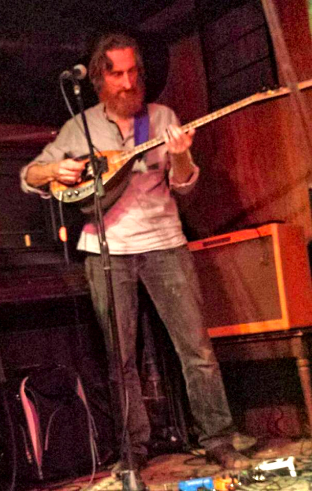 Lu Edmonds performing with the Mekons on July 15, 2015.